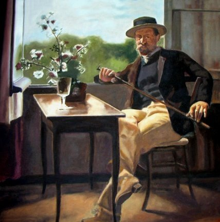 Portrait of George Pauli